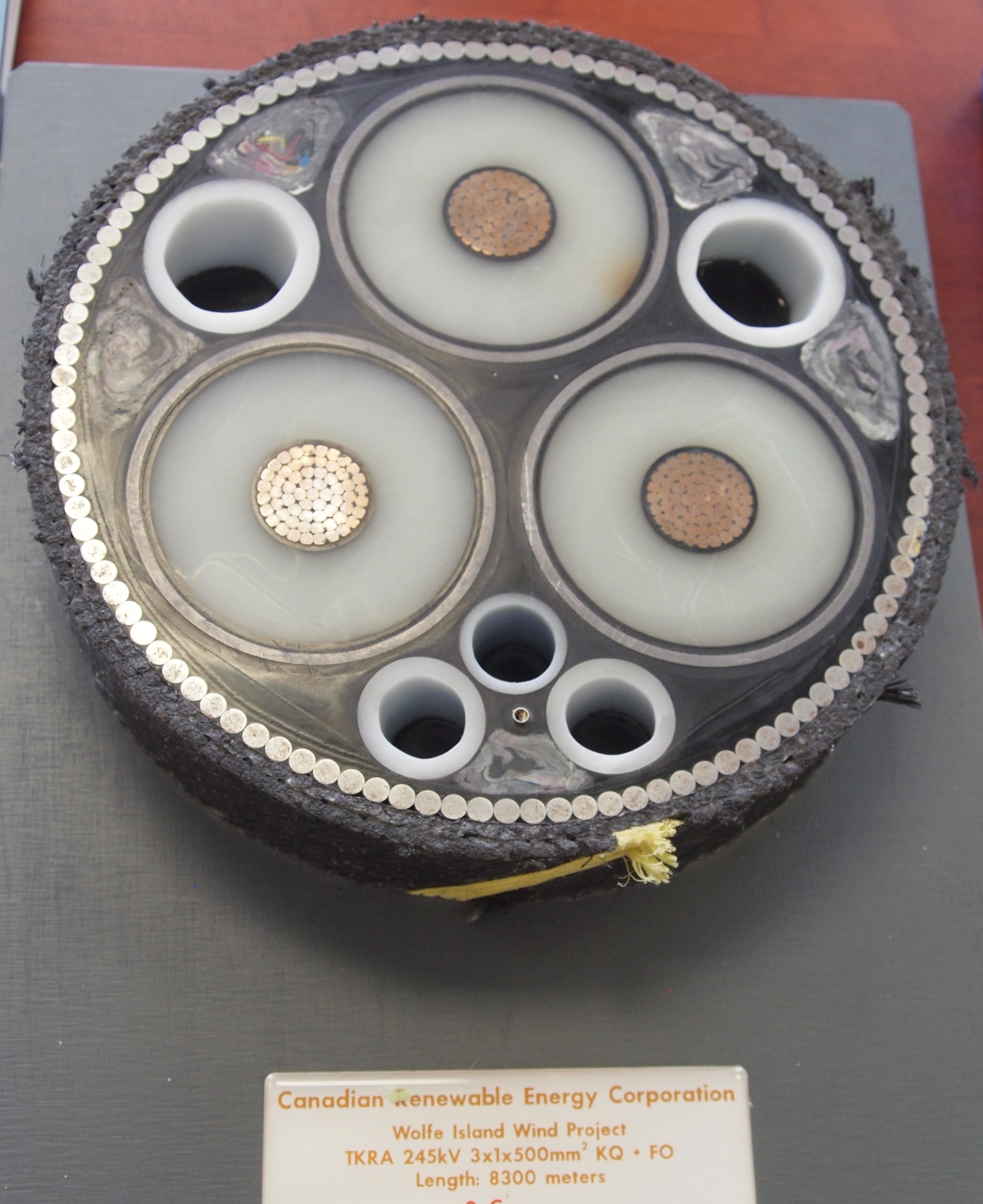 Cross section of submarine power cable used in Wolfe Island Wind Project. Three 230 kV copper conductors enclosed by polyethylene insulation. The six tubes are hollow filler strands. There are 36 individual fiber optic lines bundled in the middle of the three fillers at the bottom. Steel strands at the outer layer wrapped in a water-tight covering served as cable armor [1]